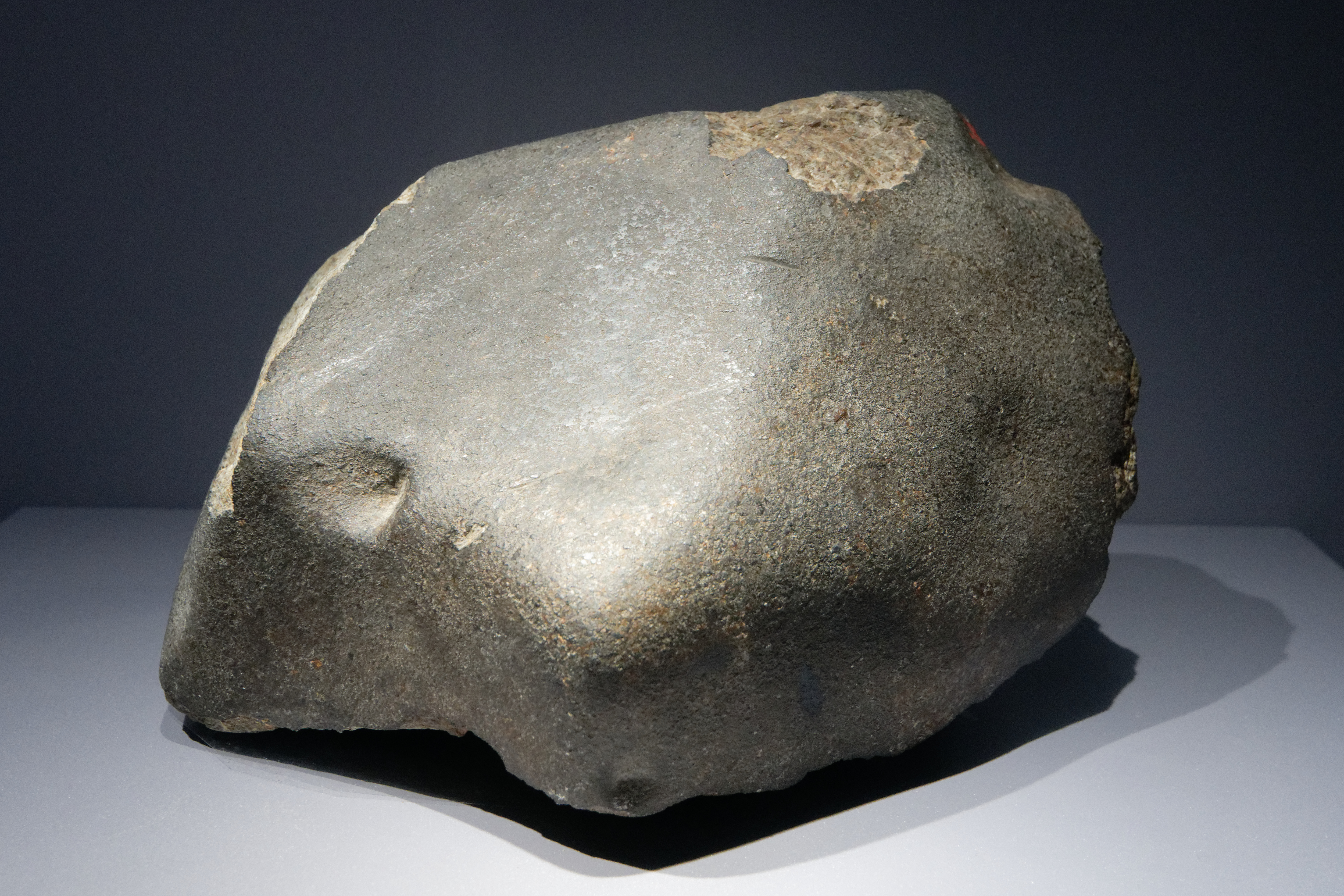 Meteorite (chondrite L6) from L'Aigle, Orne, France. Fallen on 26 April 1803 at 13:00. Gallery of Mineralogy and Geology of the French National Museum of Natural History in Paris.